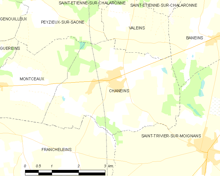 Map of French commune: Chaneins Map commune FR insee code 01083.png